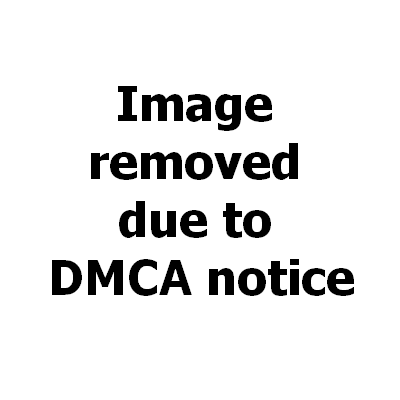 "Image removed due to DMCA notice" – intended to replace a deleted image in articles where the Commons image has been deleted.